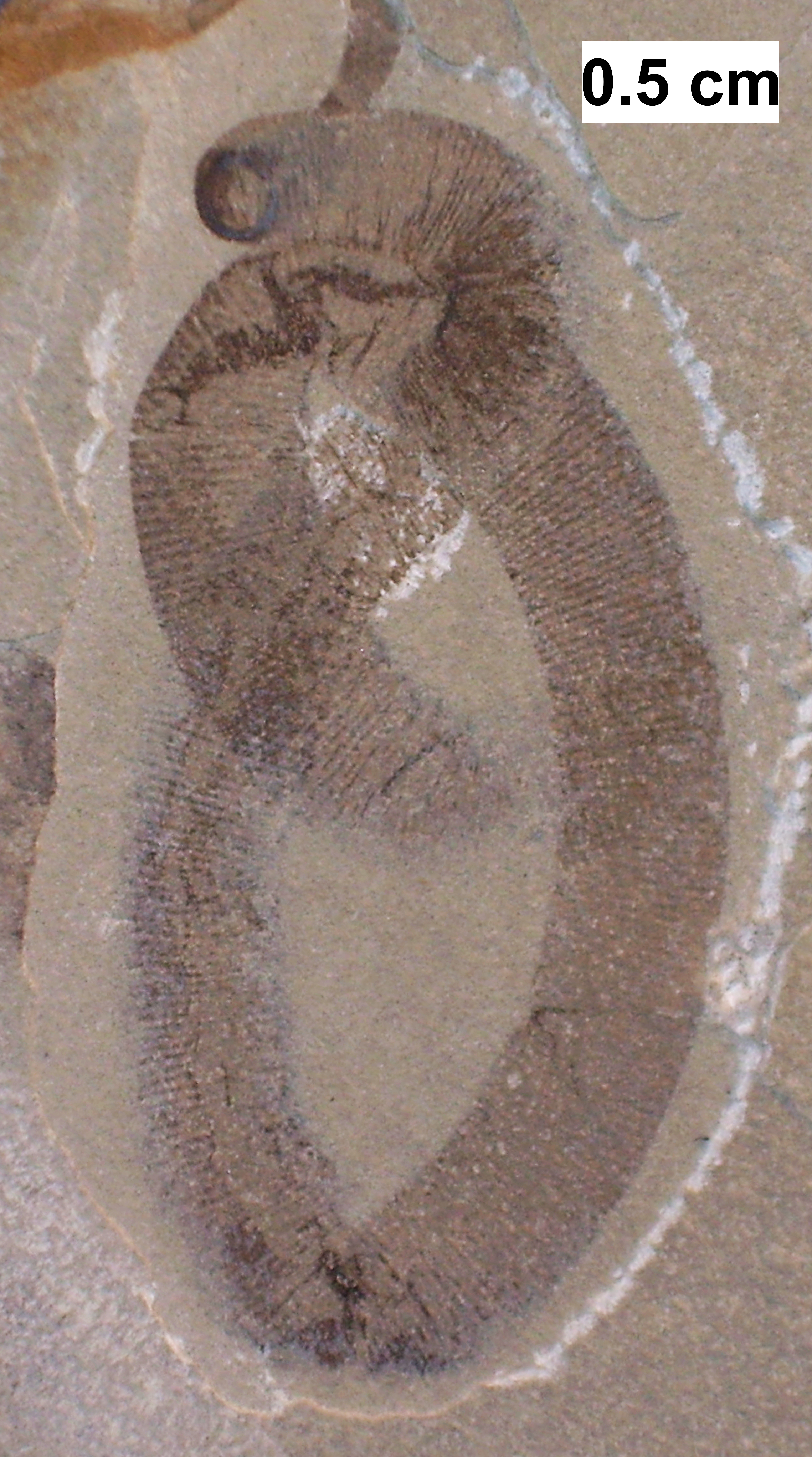 Silurian worm, probably a leech, from the Waukesha Biota, Brandon Bridge Formation, Waukesha, WI; UWGM 2422.